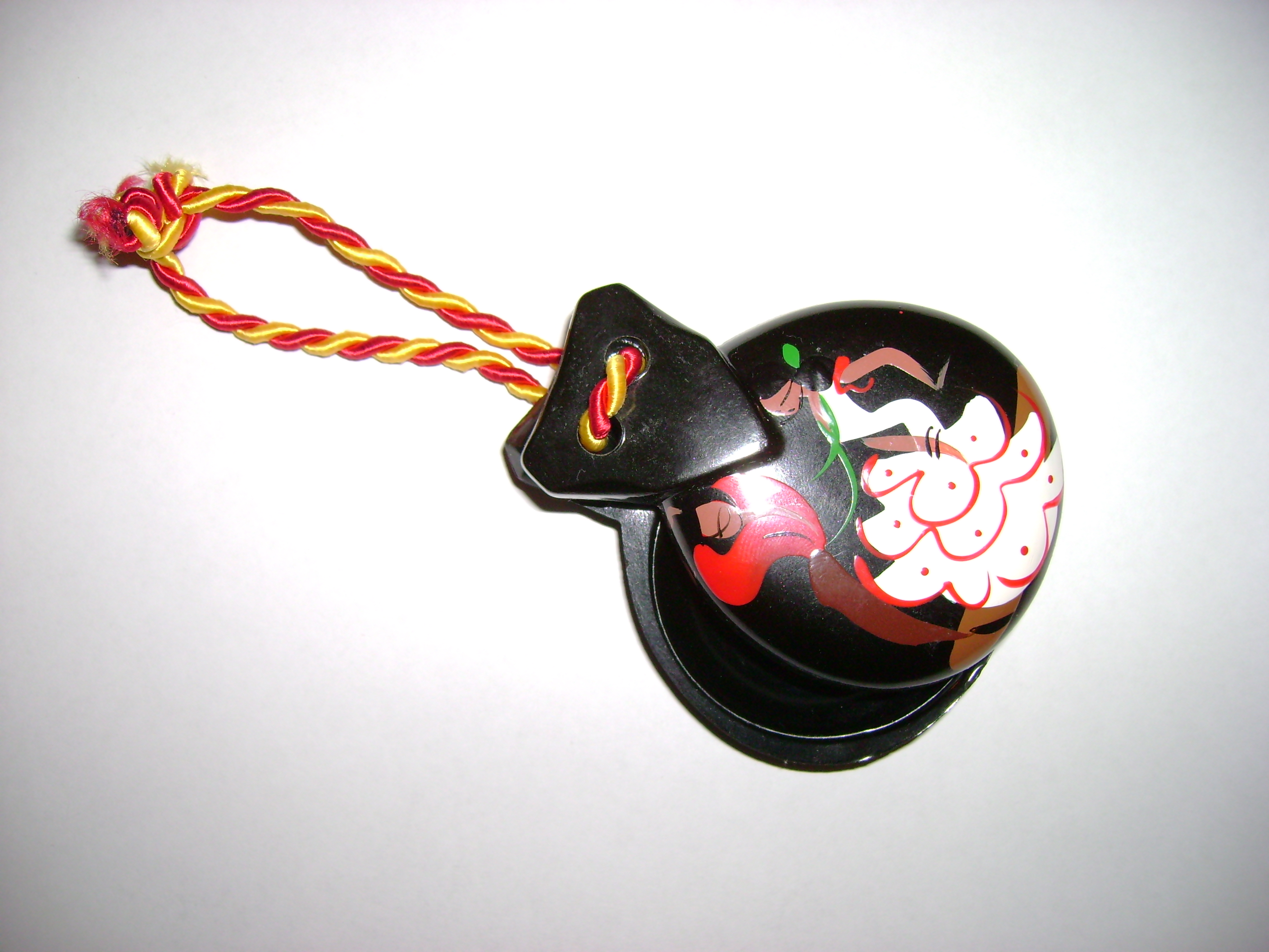 Castanets, Spanish popular percussion instrument.